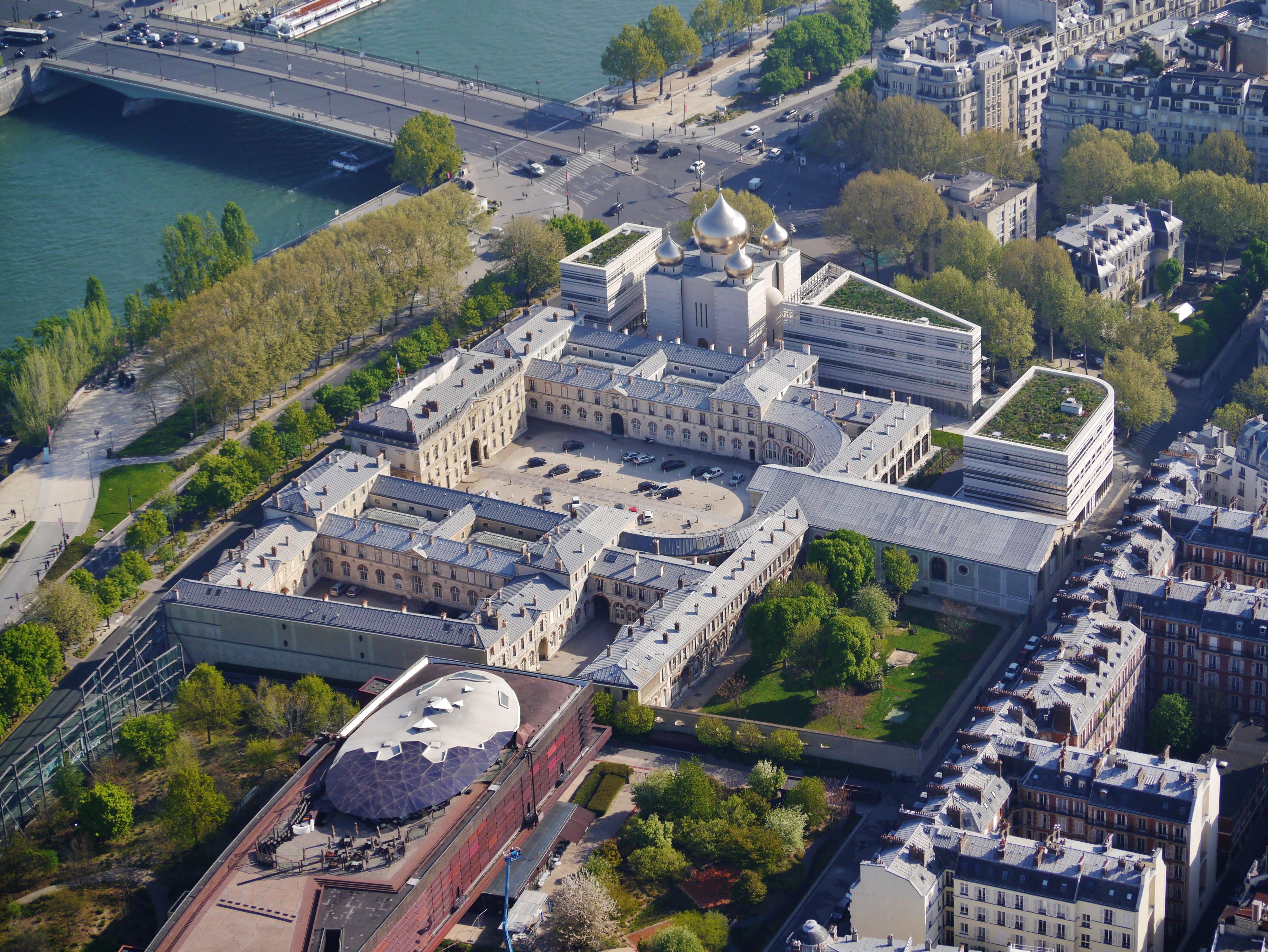 View from the Top/third Floor of the Eiffel Tower to the New Russian Orthodox Cathedral, Paris, Region of Île-de-France, France